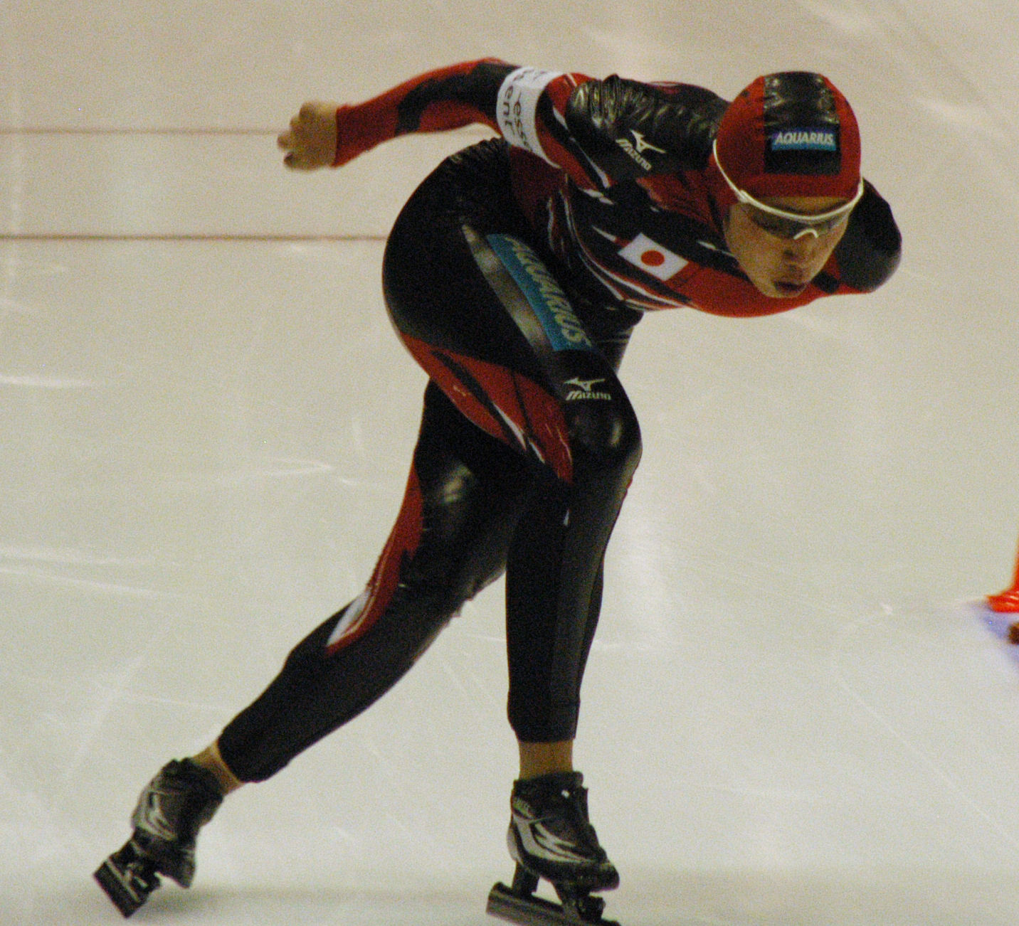 Hiroki Hirako (JPN) in action at a world cup speedskating in Heerenveen, the Netherlands.